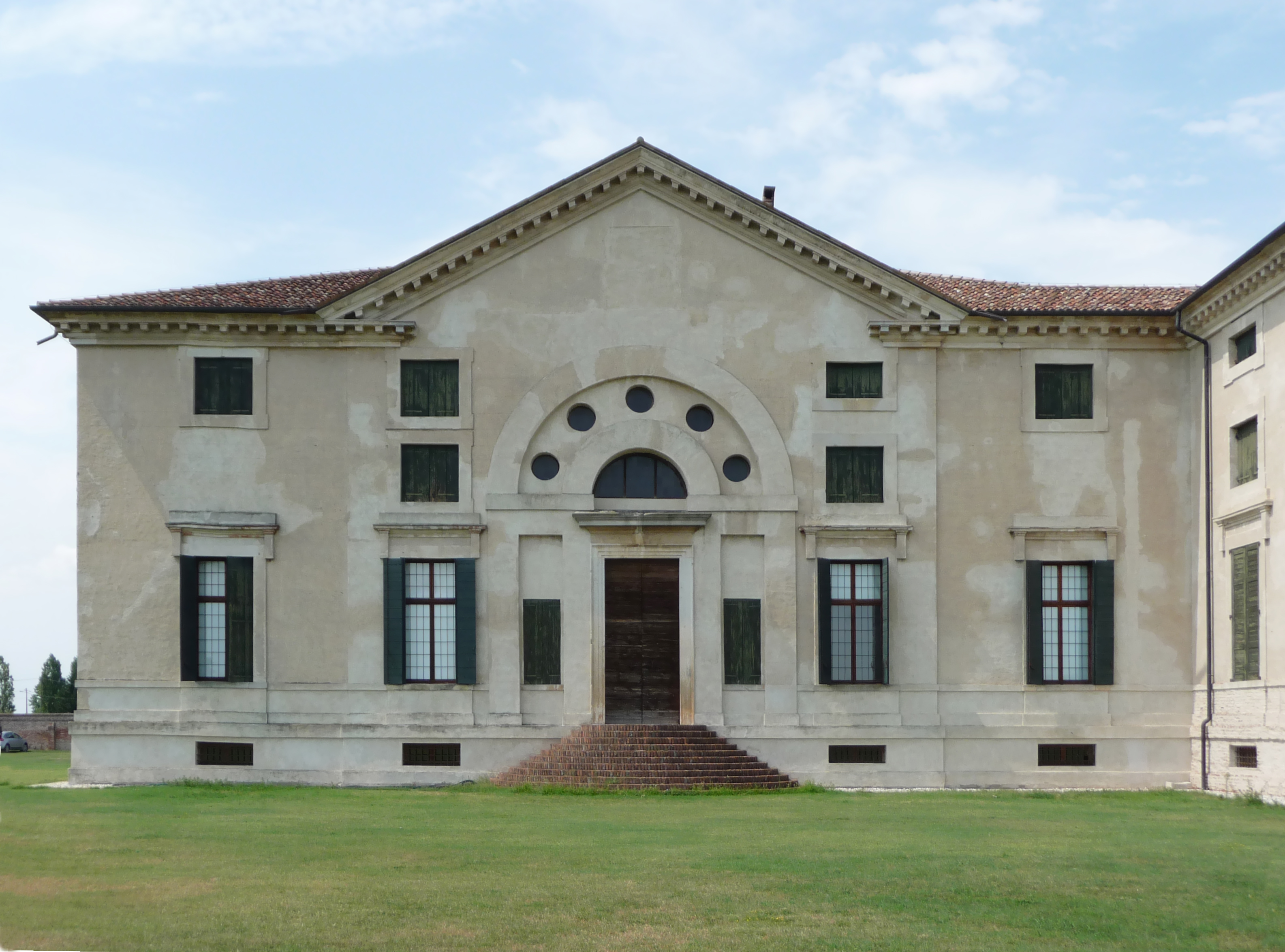 Villa Pojana is a patrician villa in Pojana Maggiore, a locality of the Veneto region of (northern Italy). It was designed by the Renaissance architect Andrea Palladio.